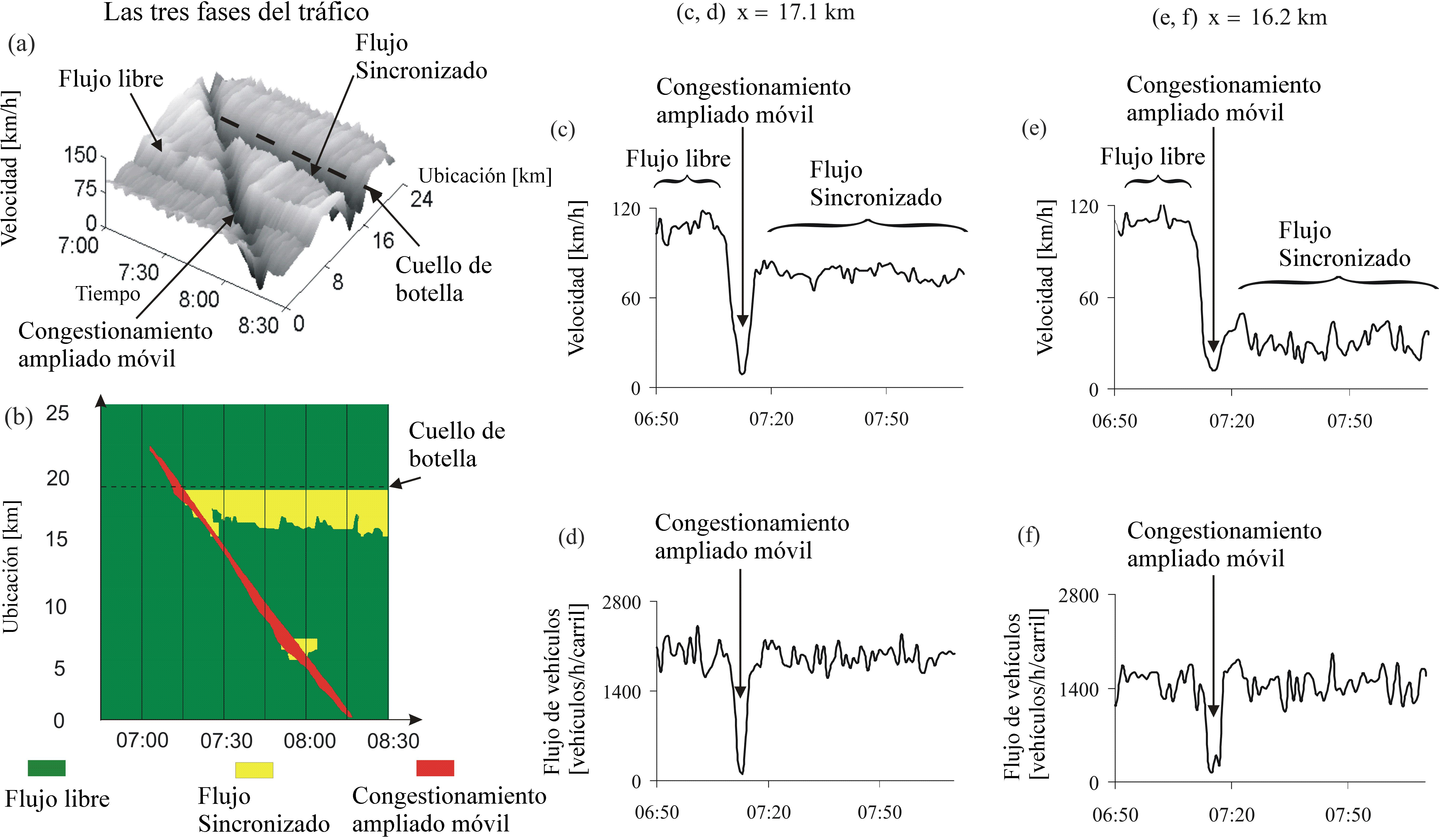 ASDA Phases